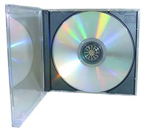 Jewel Case for CD